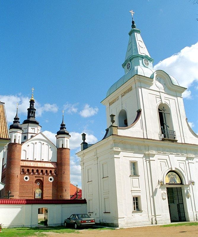 Buildings of Orthodox monastery in Supraśl, Poland from with the permission of the author. Photo from 2003.